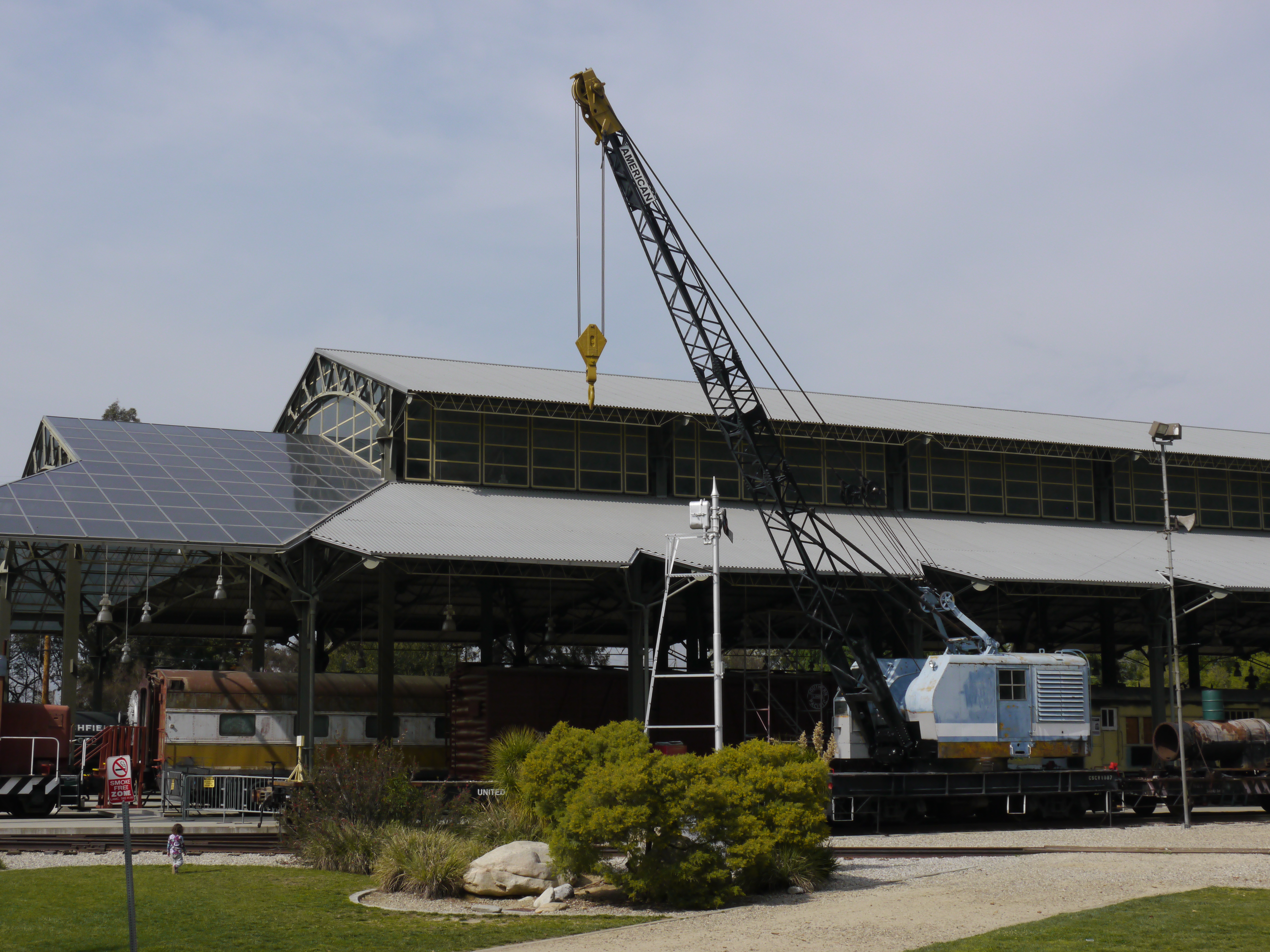 USA 2012 0242 - Los Angeles - Travel Town